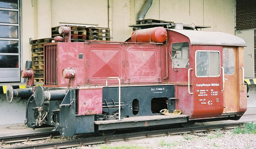 A German class 323 shunting diesel loco in Mannheim, Germany.